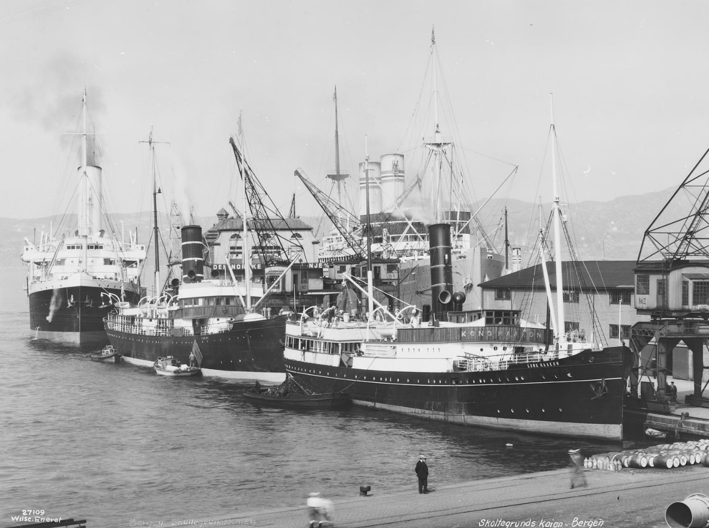 Skoltegrunnskaien in Bergen, Norway. Closest ship is the Norwegian coastal express ship (Hurtigruten) DS Kong Haakon, built in 1904. The ship close behind is DS Venus a passengership in the England-line. The large leftmost ship is unknown. The ship in the background is DS Stavangerfjord from the America-line (Den Norske Amerikalinje).